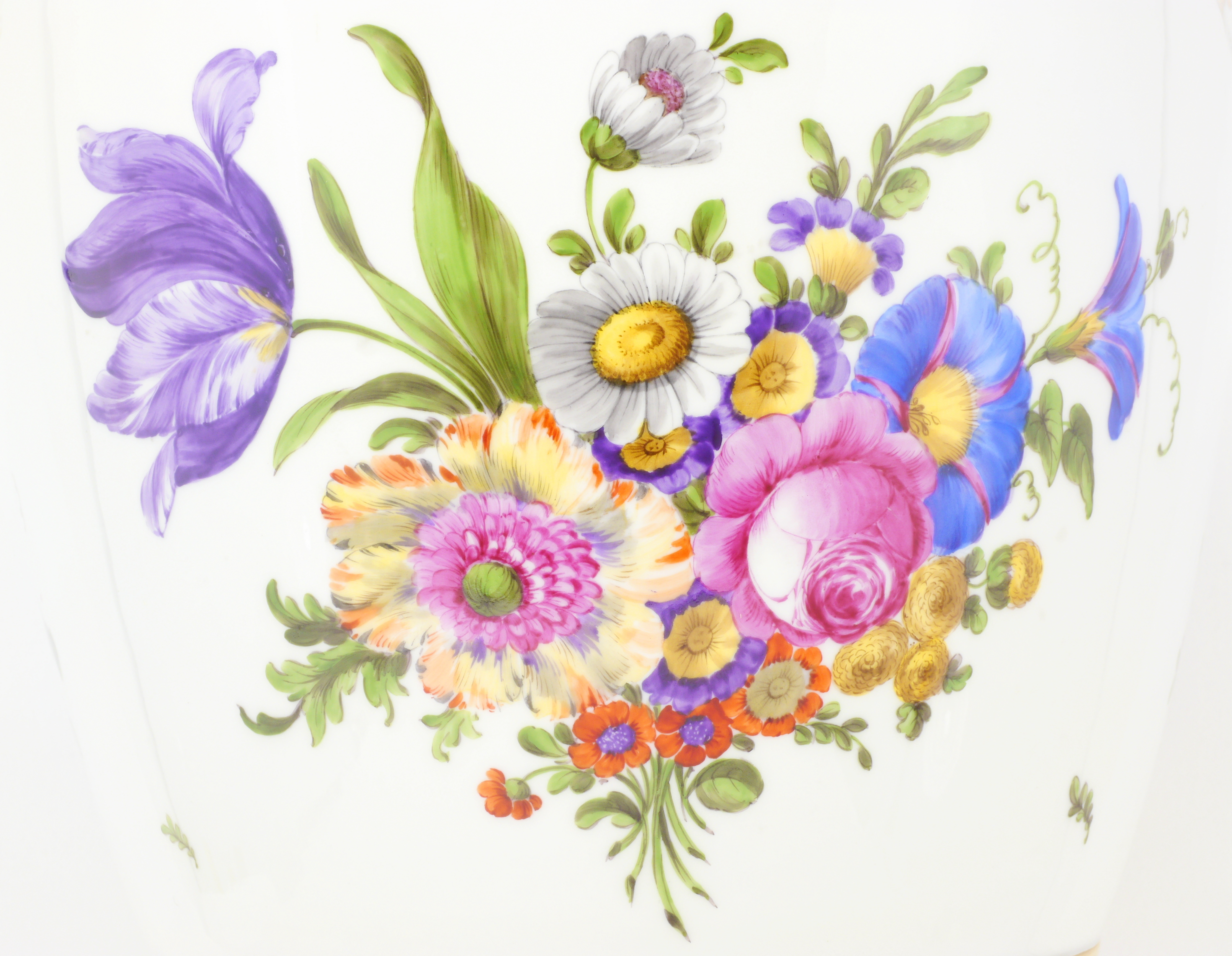 decor german flowers on a vaseKPM Berlin, 1914